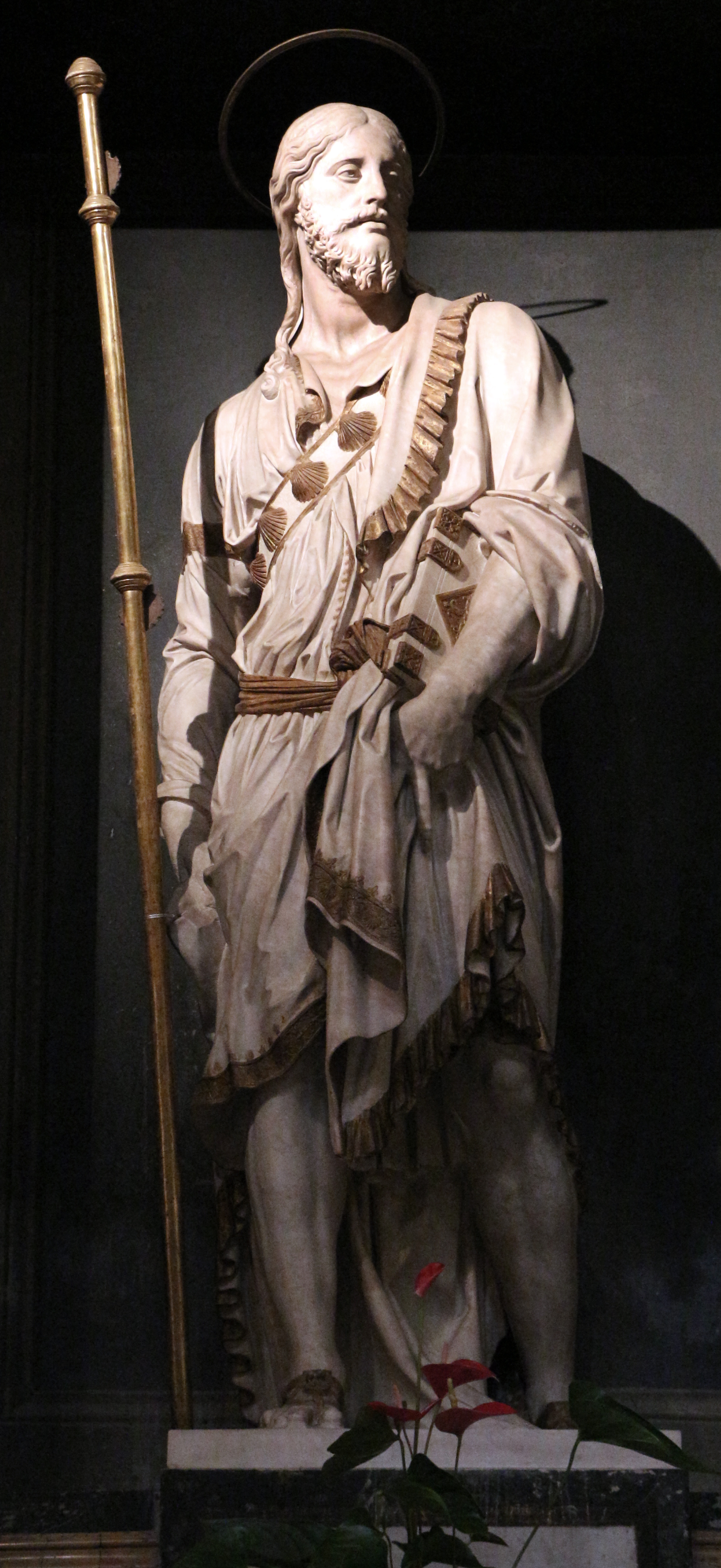 Santa Maria in Monserrato degli Spagnoli - Interior